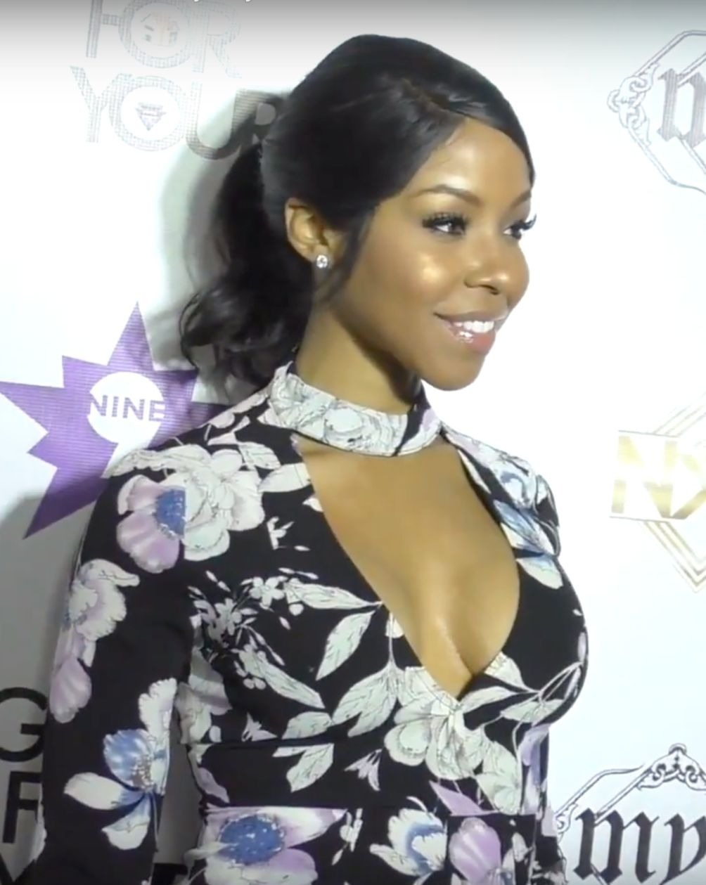 KJ Smith at the 9th Annual Manifest Your Destiny Toy Drive And Fundraiser at W Hotel in Hollywood